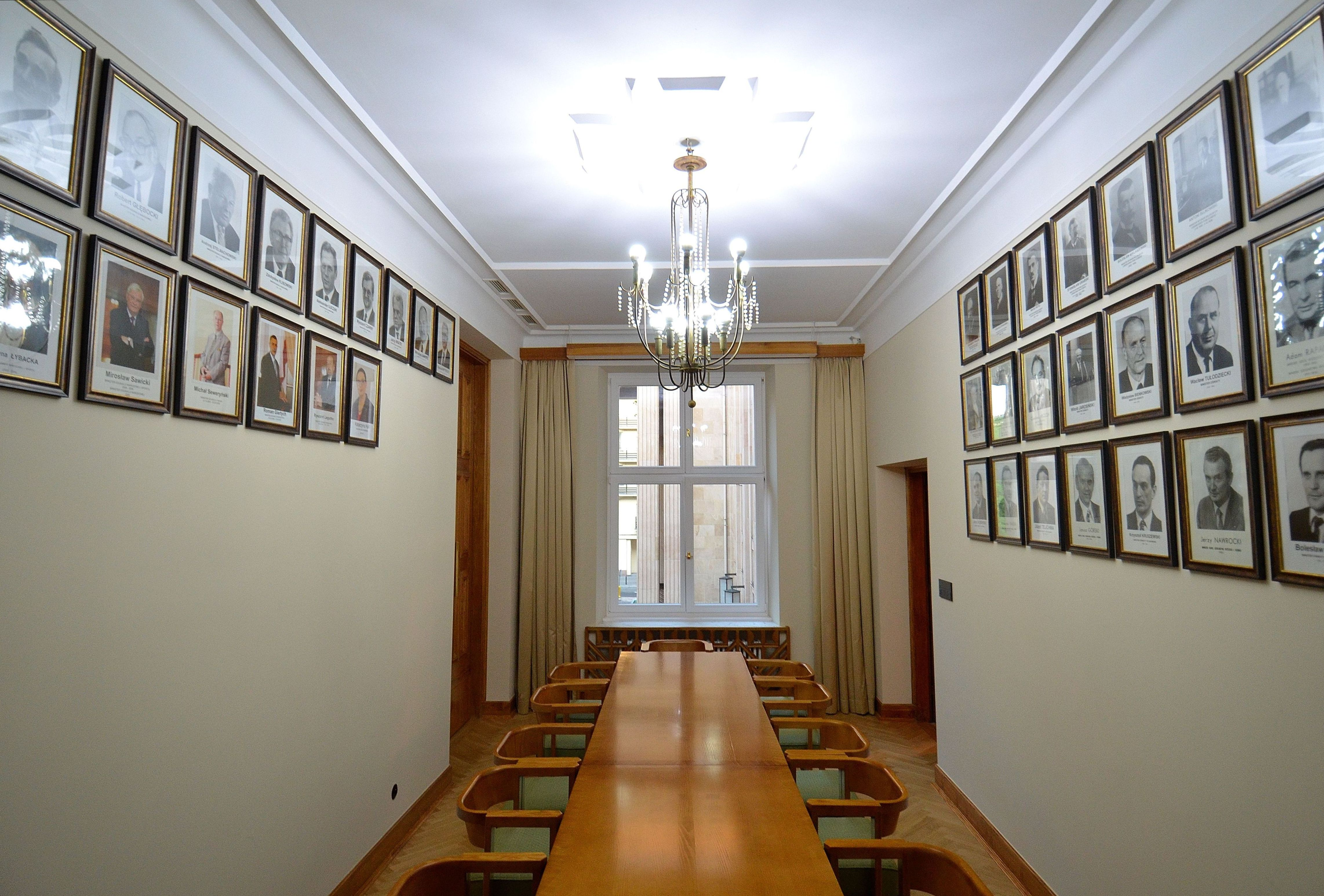 Conference room at the Ministry of National Education at 25 J. Ch. Szucha Avenue in Warsaw